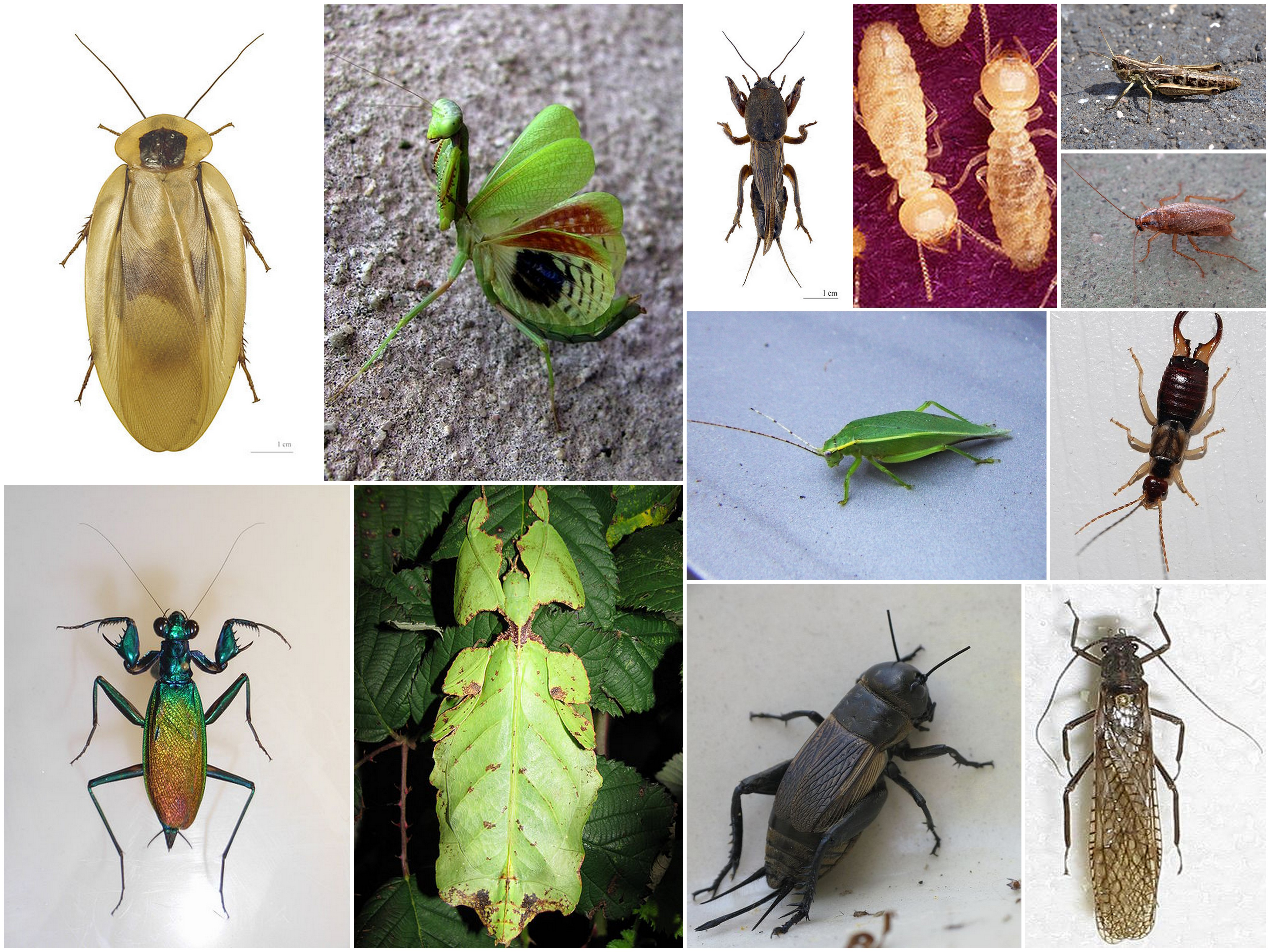 Collage about Polyneoptera